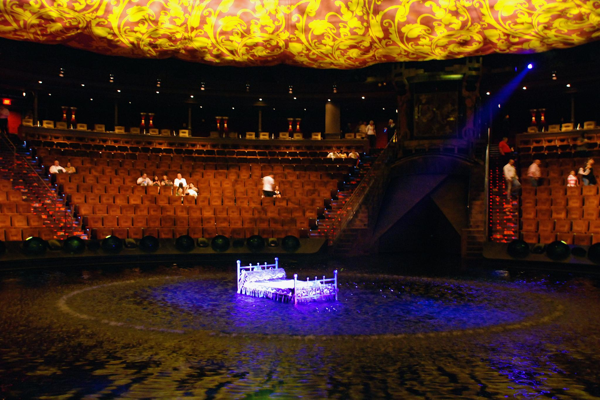 Inside Le Reve Theater at the Wynn